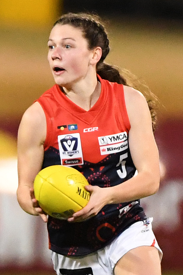 Shelley Heath of Casey during the 2019 VFLW round 11 match between NT Thunder and Casey at Traeger Park on Saturday, 20 July 2019 in Alice Springs, Northern Territory.